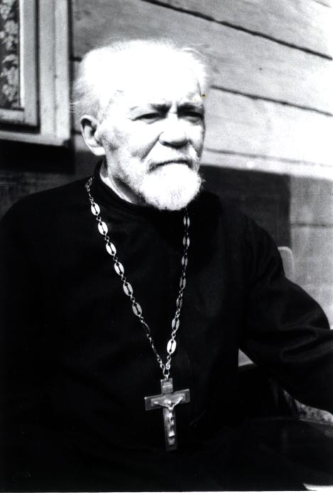 Ivan Petrovich Verenich is priest of church in the village Buchin (restoration of photo of 1970 year)